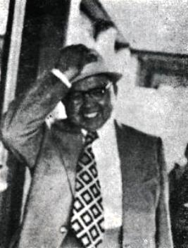 Pavle Zablatnik (1912-1993), Slovene priest, educator and ethnographer